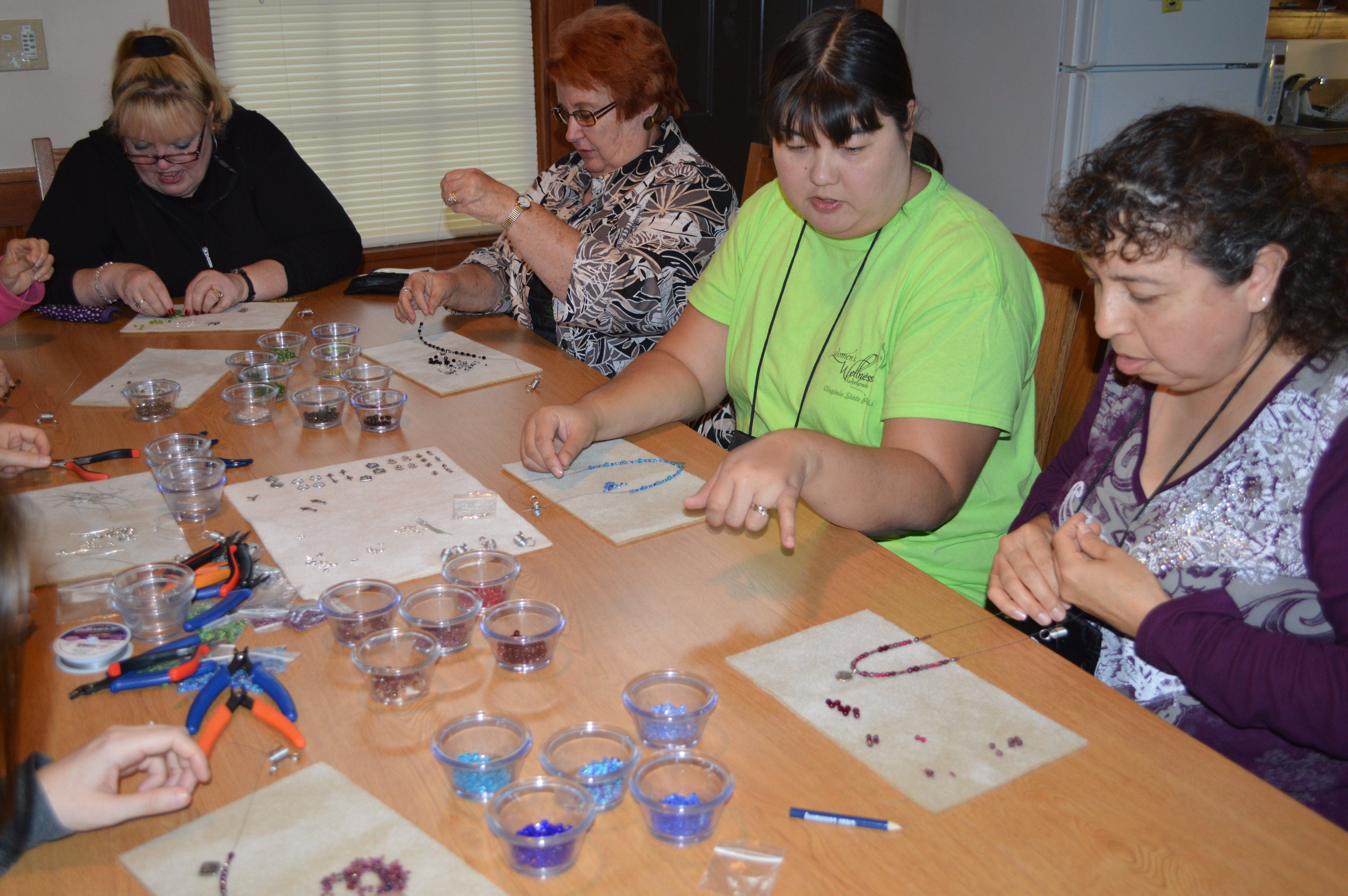 Beading from Beadsburg